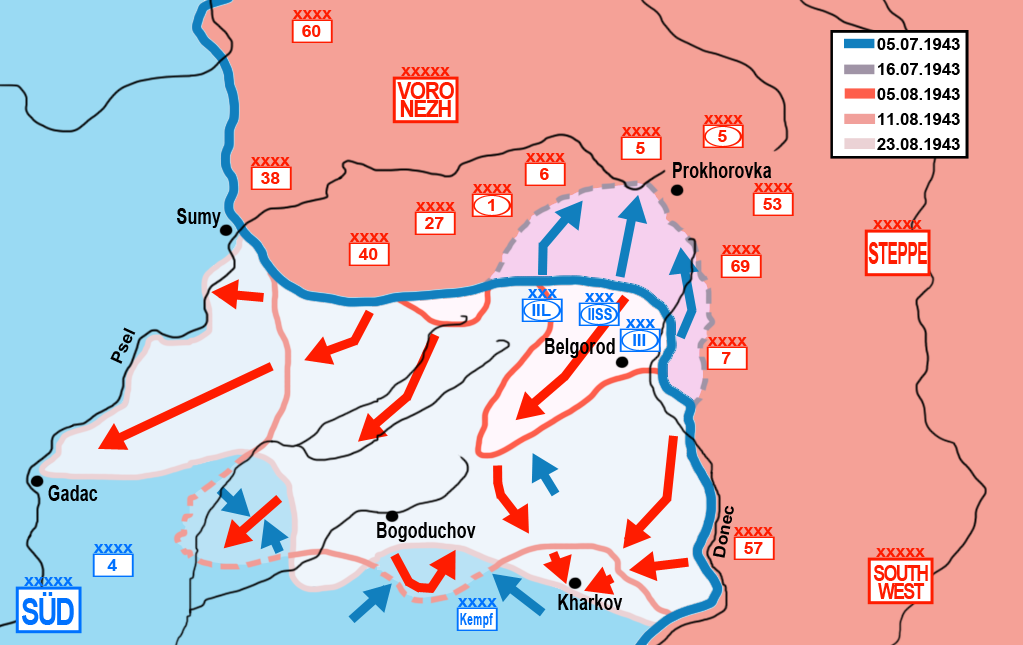 Battle of Kursk, southern sector. Operation Zitadelle + Operation Rumanyantcev 5.7.43-23.8.43